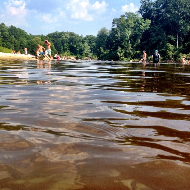 Bathers enjoying the public sandbar at the end of the Coal Bluff Campground and Park nature trail. A popular recreation activity at the park.